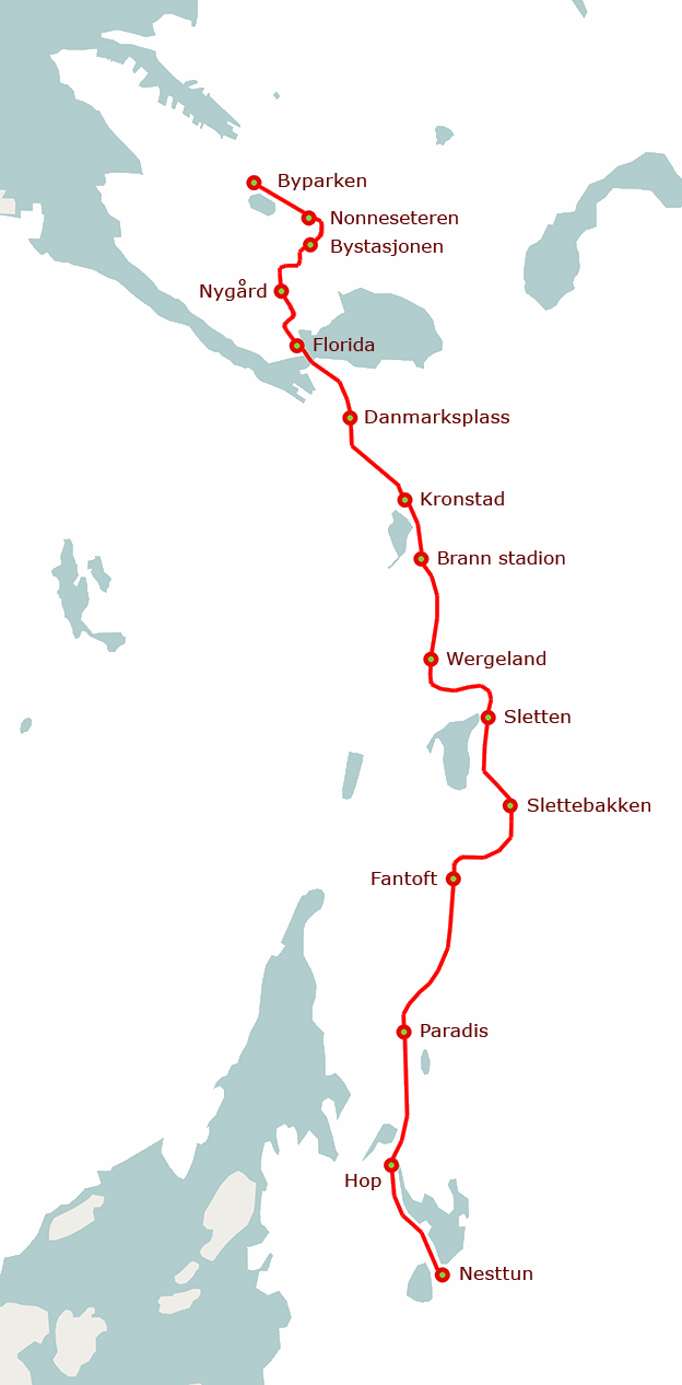 Map of the Bergen Light Rail system. Based on OpenStreetMap map data.